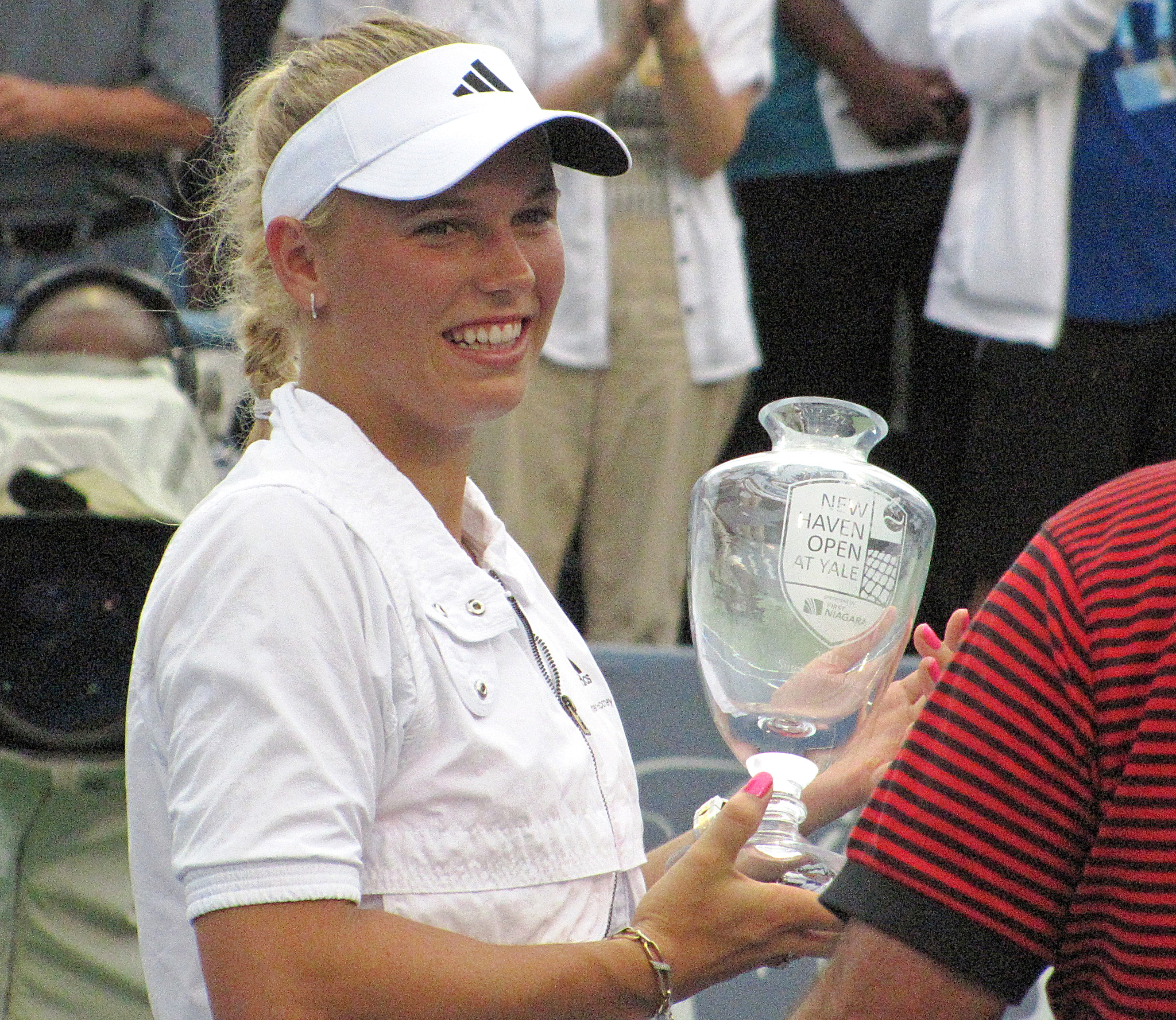 Caroline Wozniacki accepting championship trophy at the New Haven Open 27 August2011